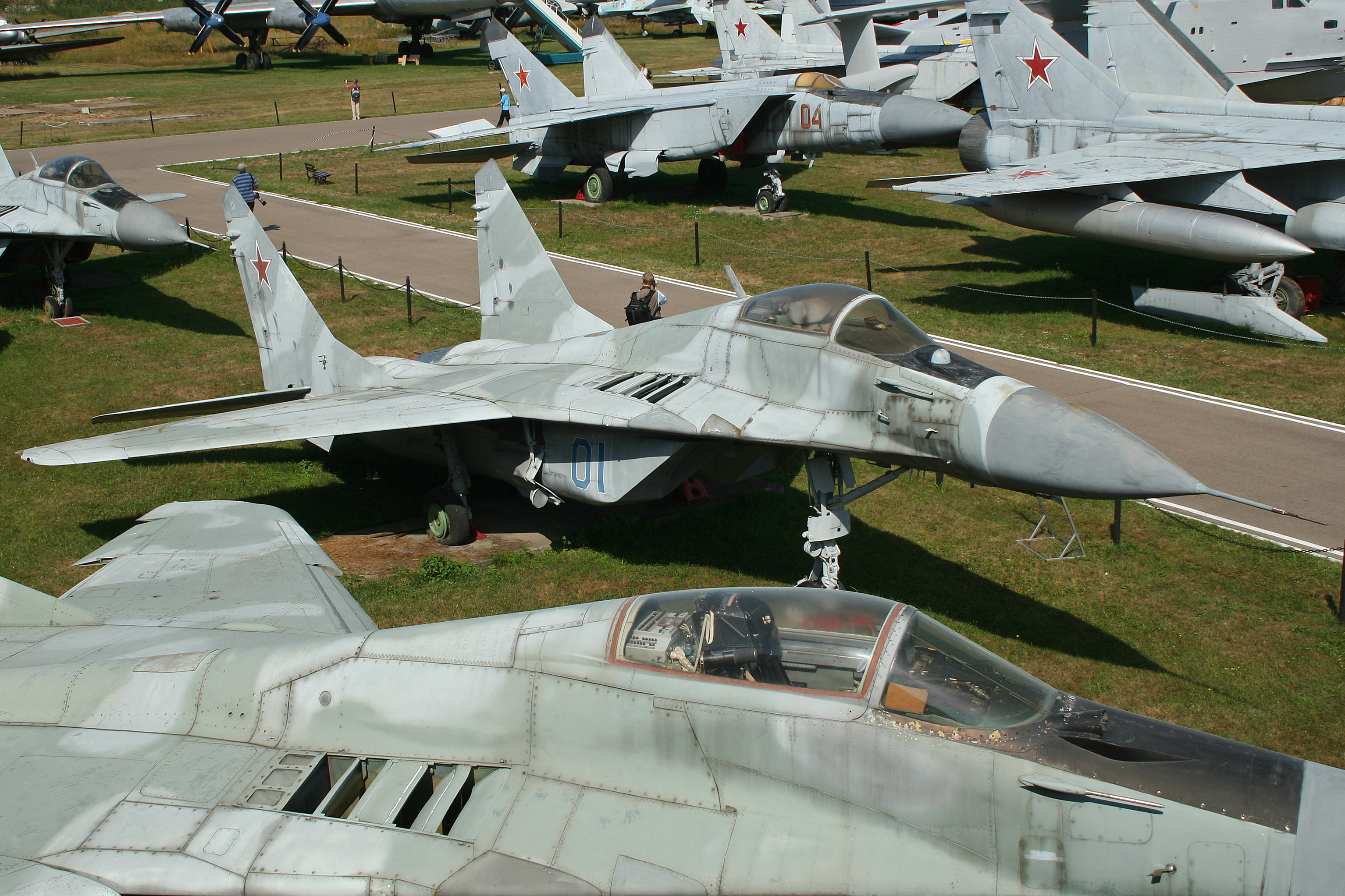 This nondescript MiG-29 is actually the first prototype! It first flew on 6th October 1977. Over 1,600 have been built since then and, 36 years later, the type remains in production! This shot was taken from the steps leading up to the Tu-144. c/n 9-01. On display at the Russian Air Force Museum. Monino, Russia. 13-8-2012